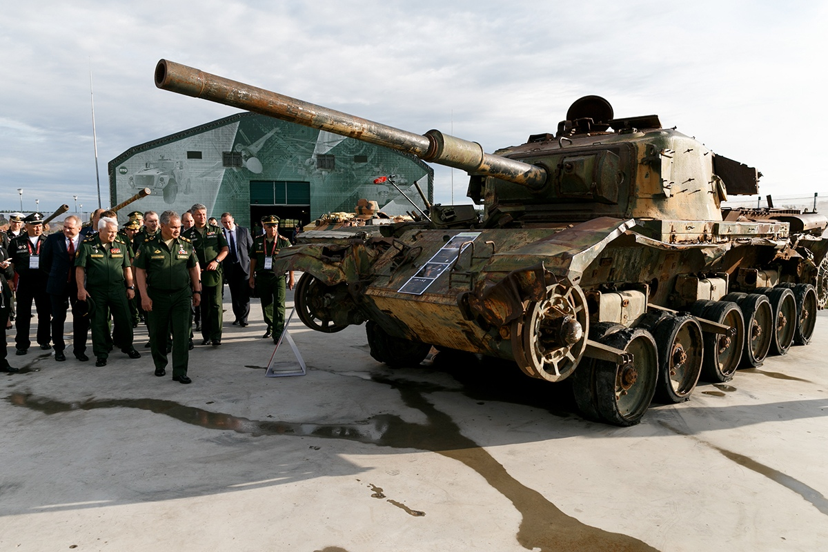 Centurion on Army-2018.